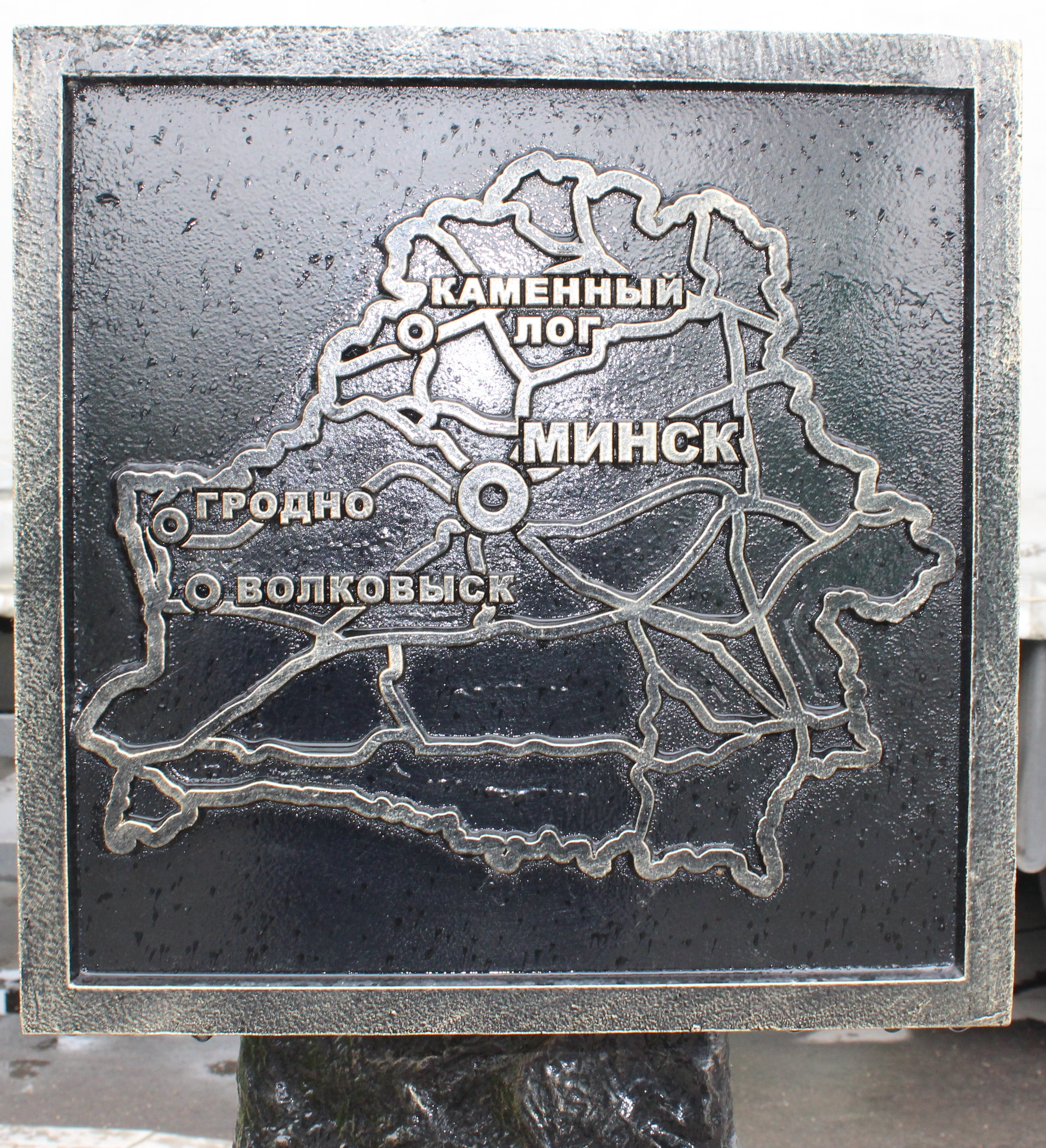 The memorial plaque at a gas station in the village of Kamenny Log near the border with Lithuania